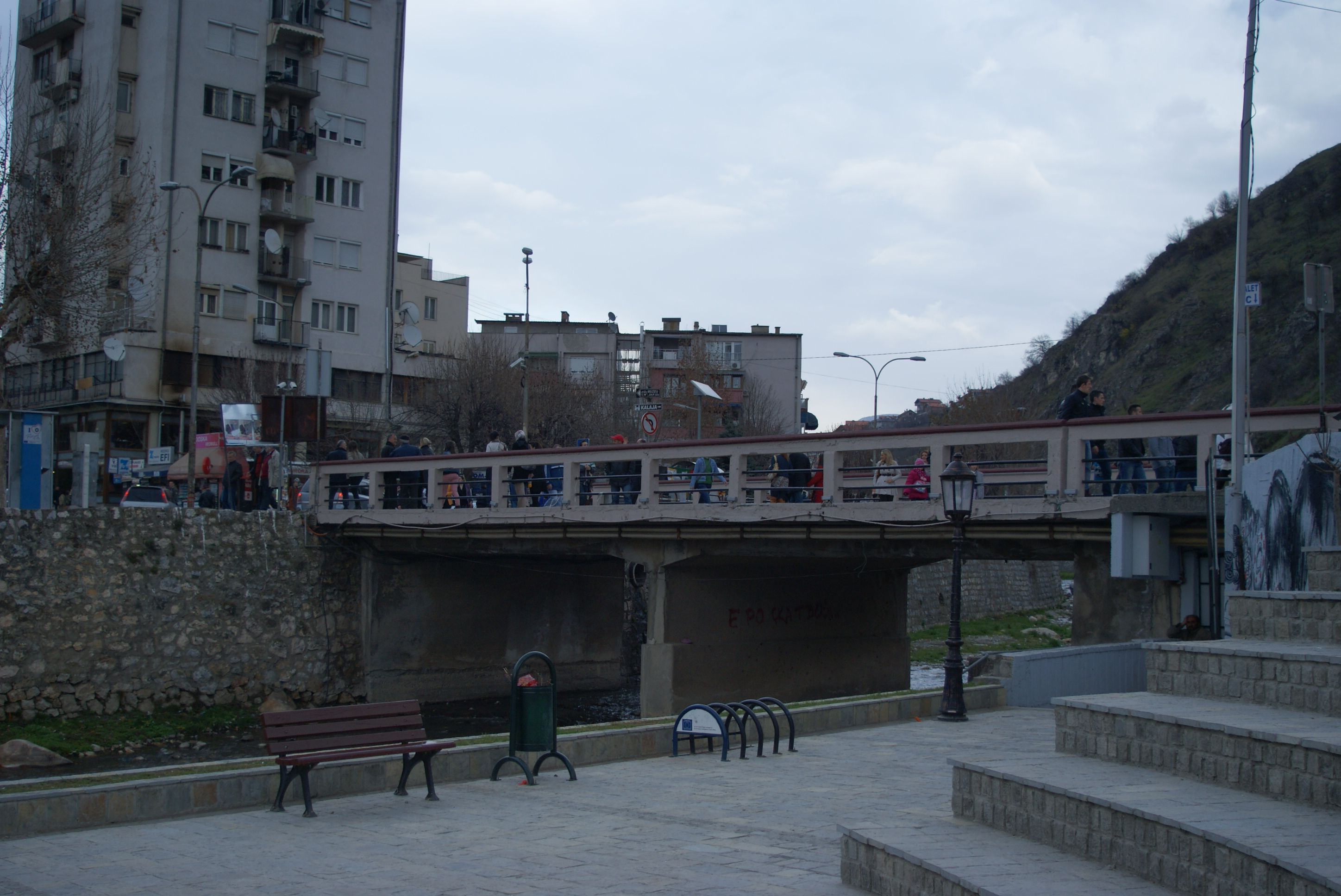 Ura 3